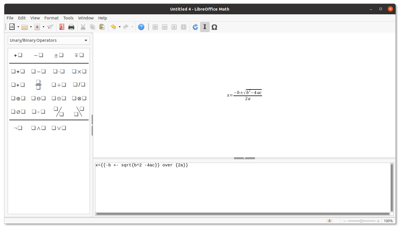 Screenshots of LibreOffice Math 6.4 running on Ubuntu 20.04.